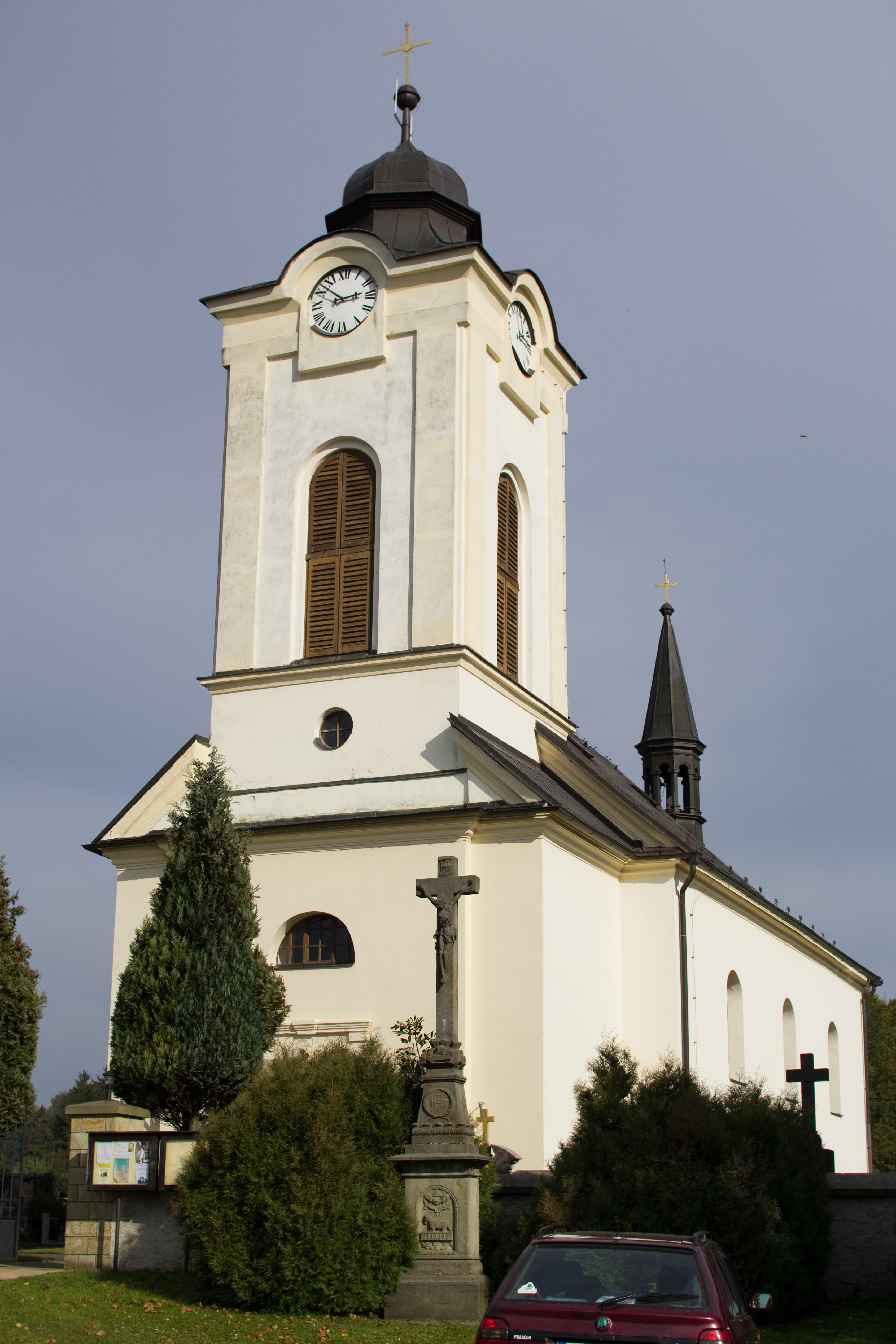 Church, České Libchavy, Rychnov nad Kněžnou District, Hradec Králové Region